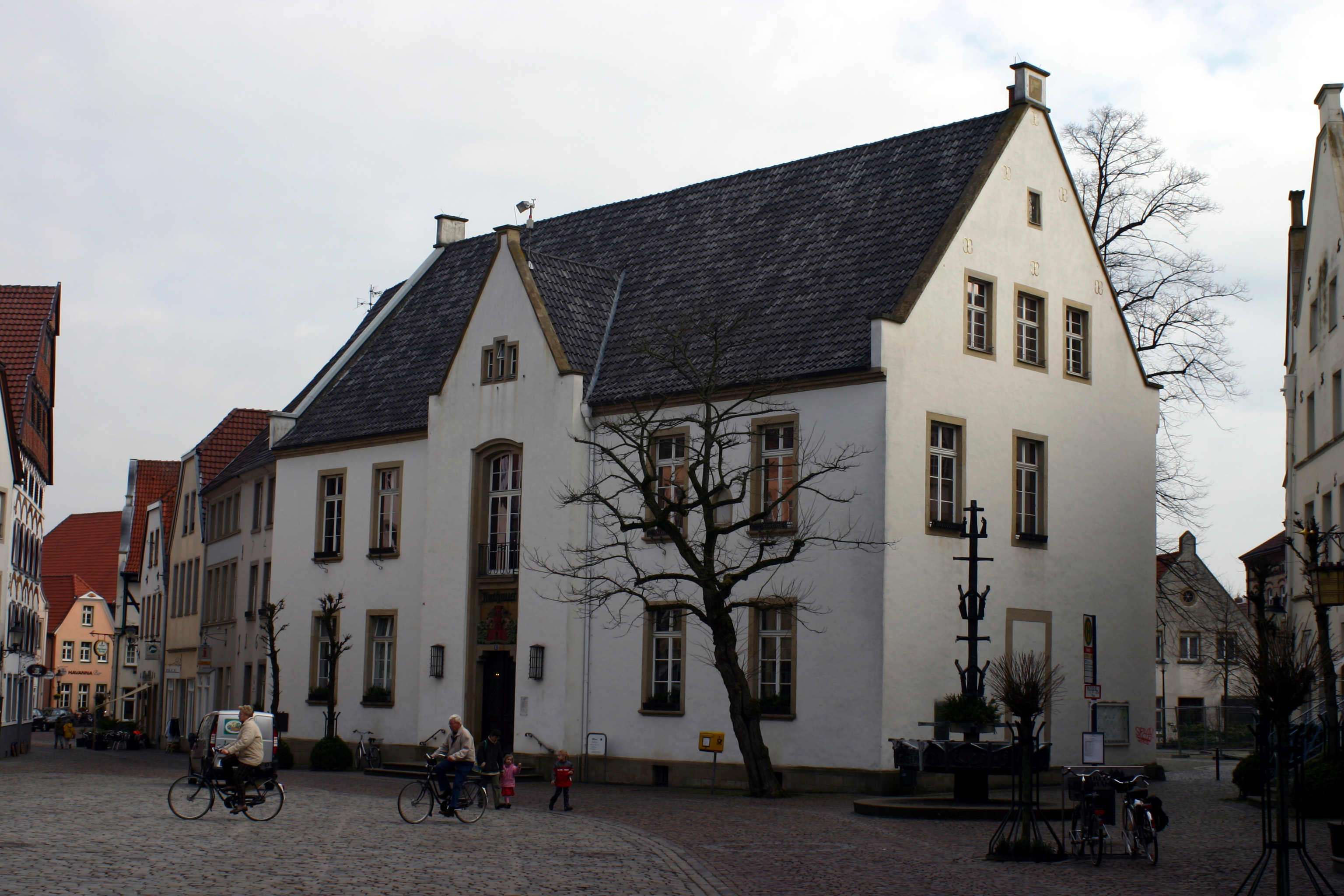 Town Hall of Warendorf, Germany